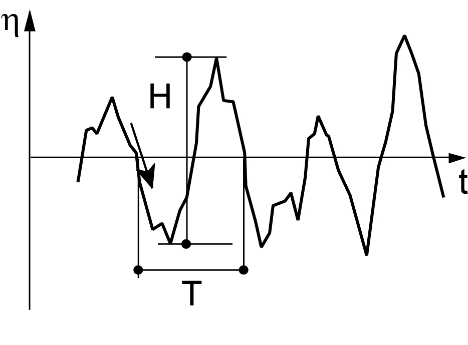 Definition of wave height: the maximum height difference between two subsequent zero crossings of the water surface